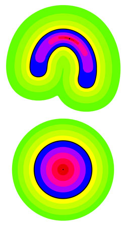 Illustration of the Jordan–Schönflies_theorem. Version of 1906